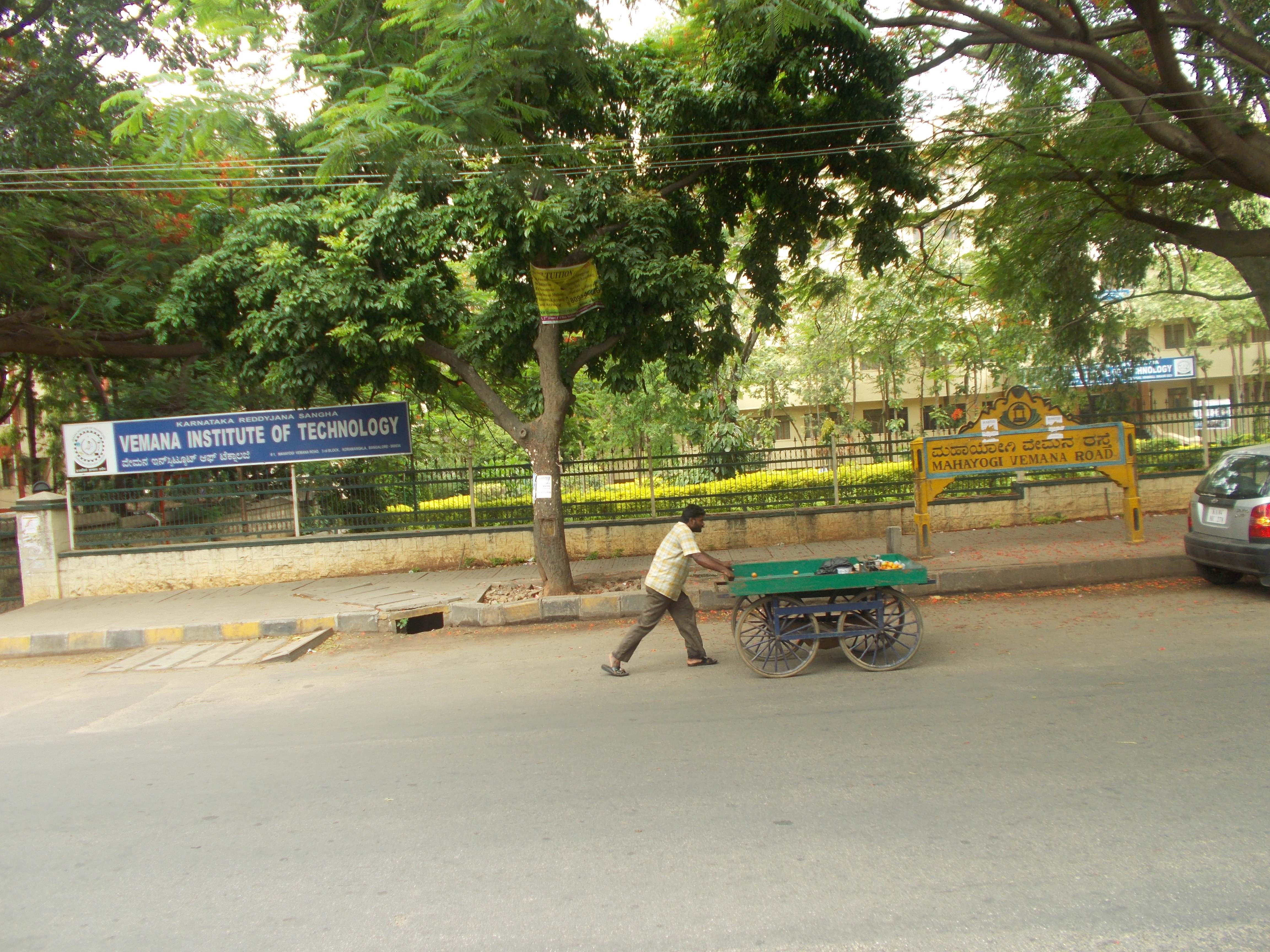 Vemana Institute of Technology on Mahayogi Vemana Road - Inner Ring Road - Koramangala. Both the institute and the road are named after a Telugu poet Yogi Vemana.